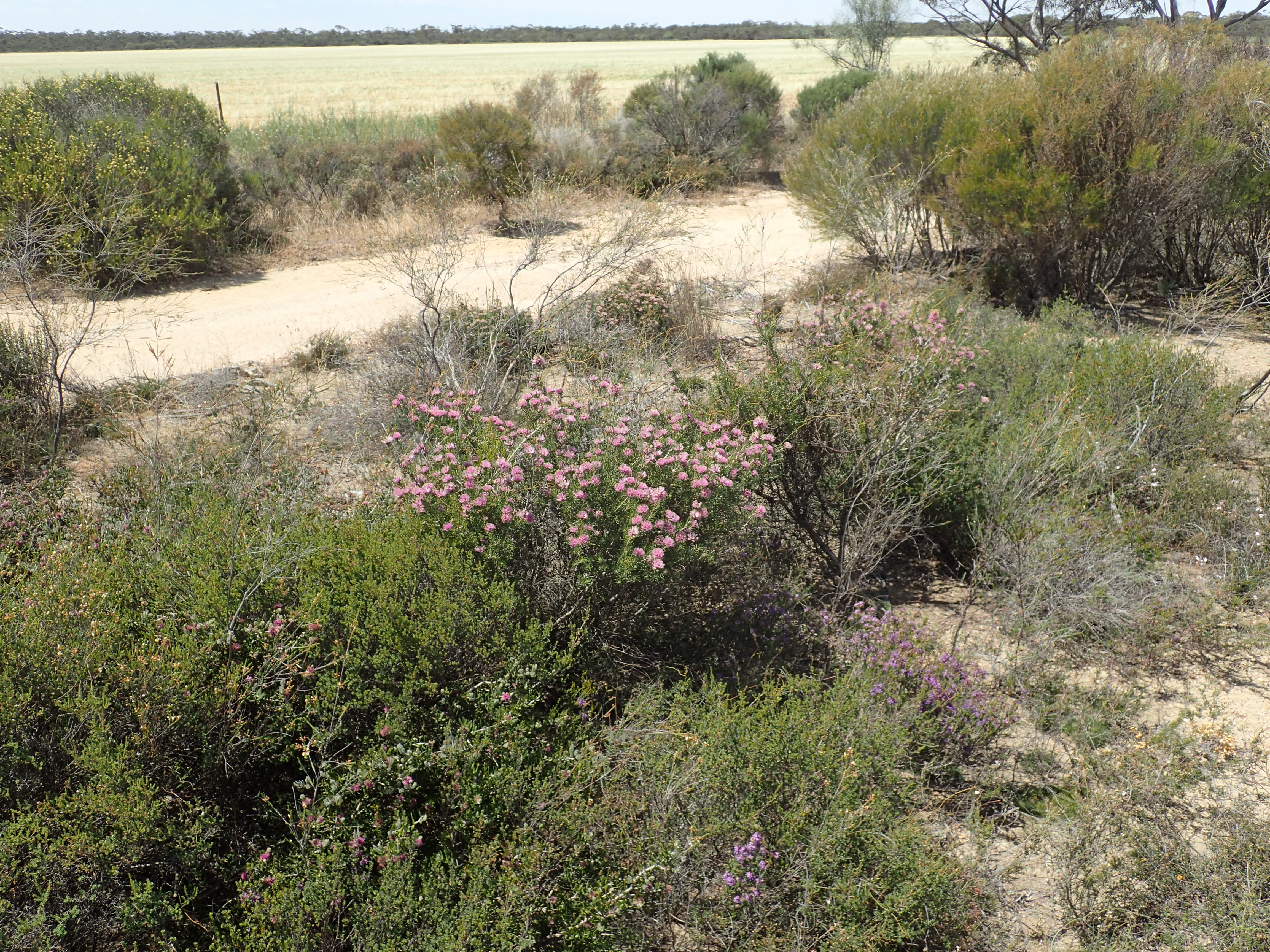 Melaleuca wonganensis growing near the Waddington- Wongan Hills road, north west of Wongan Hills township